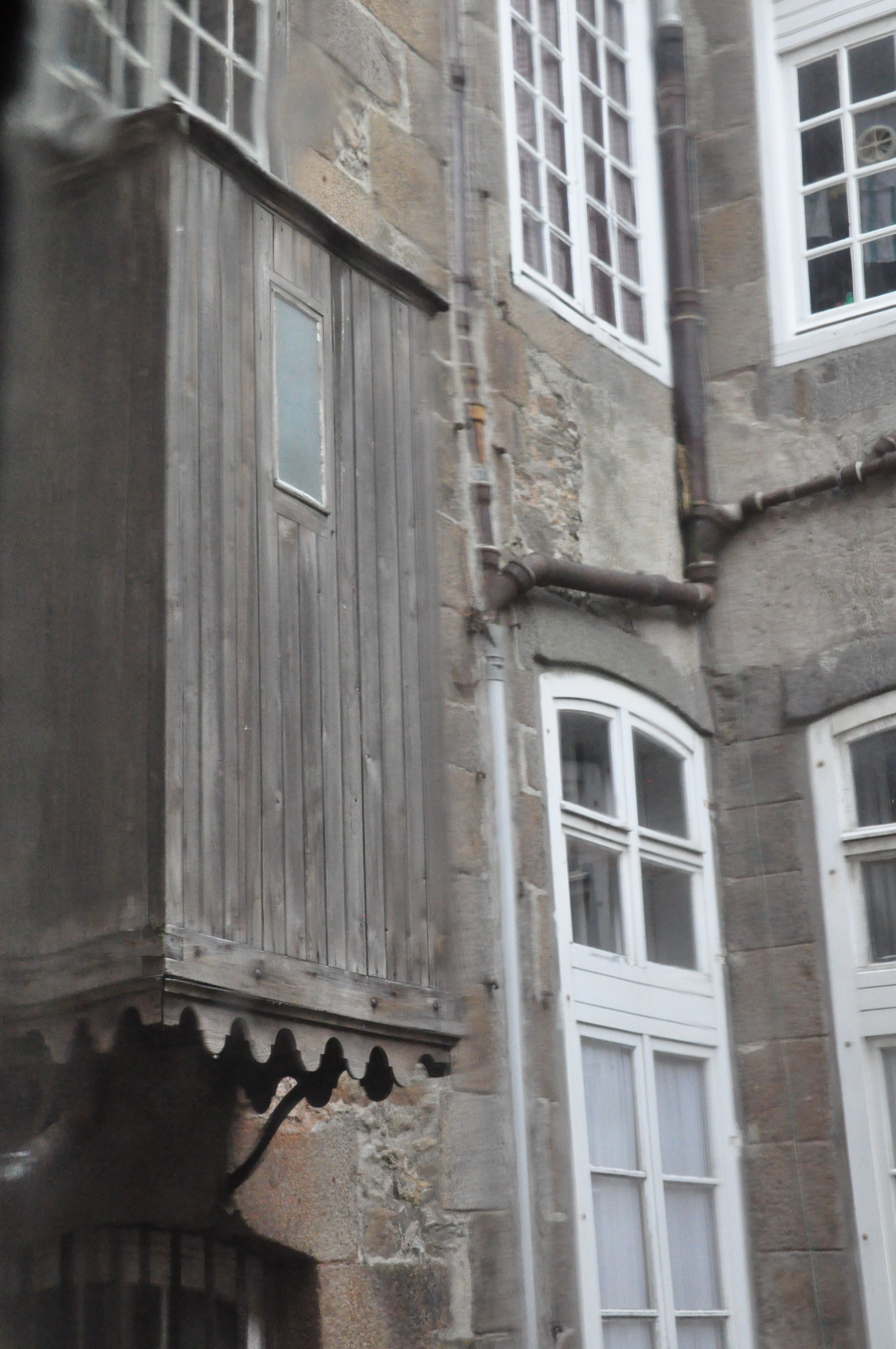 Saint-Malo (France, Brittany), former outside latrines